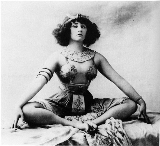 Colette in rêve d'Égypte